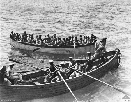 AWM Caption: A lifeboat from the Ben-My-Chree passing a line to a lifeboat full of Australian troops from the troopship SS Southland. The troopship SS Southland was torpedoed near Agistrati Island while it was carrying Australian troops to the Gallipoli Peninsula.